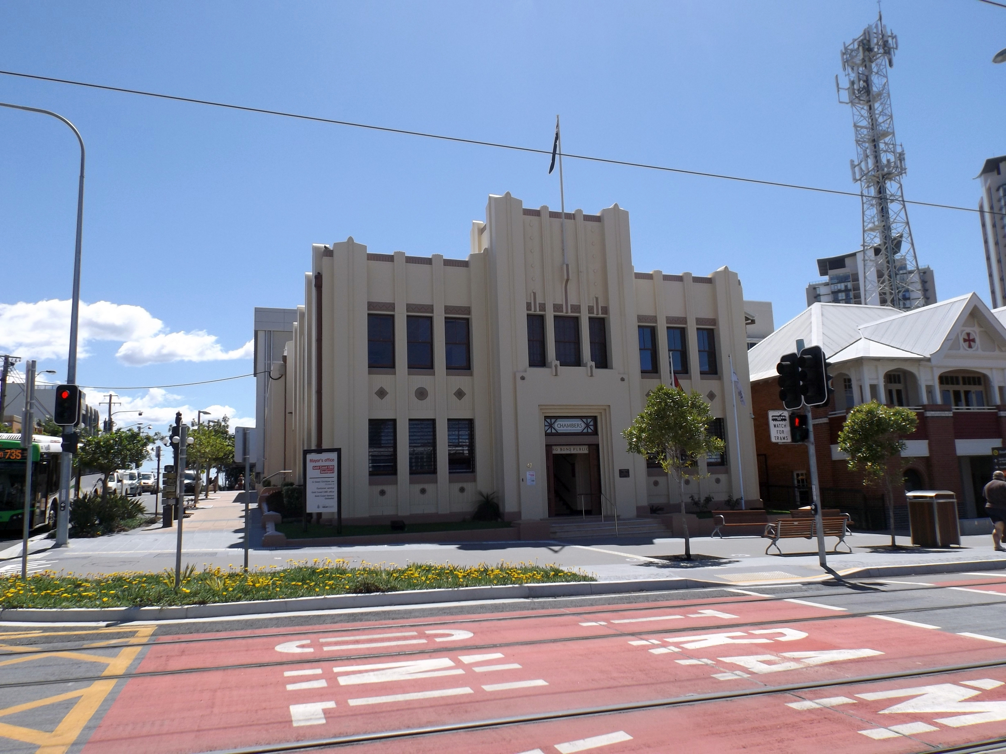 Photo of Southport Town Hall at Southport, Gold Coast City, Queensland, Australia. G:link tramway along Nerang Street is visible in foreground.